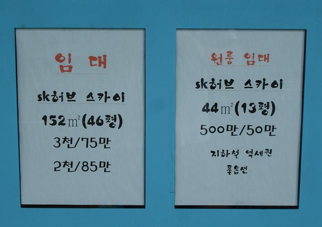 Listing of apartments outside a real-estate agency in Busan, South Korea